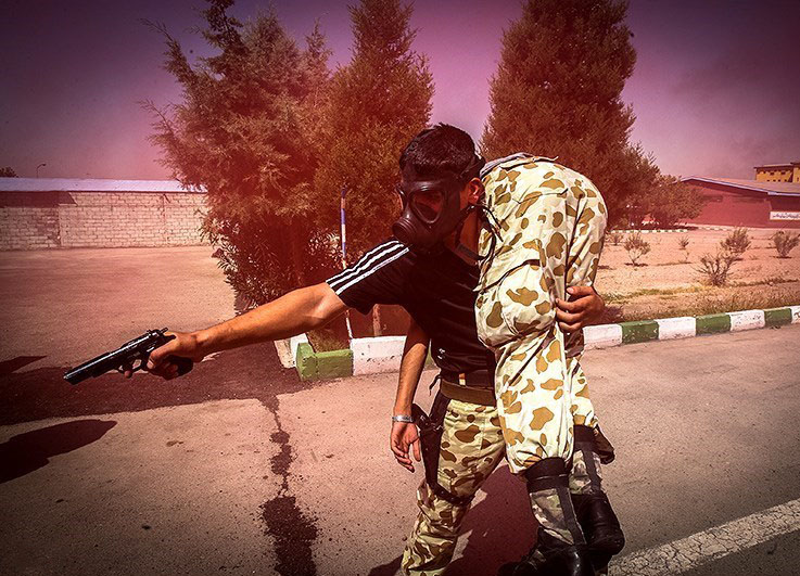 Commandos of 65th Airborne Special Forces Brigade of Iran during a hostage rescue exercise.